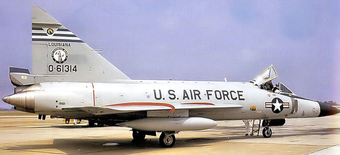 122d Fighter-Interceptor Squadron - Convair F-102A-75-CO Delta Dagger 56-1314 Retired to MASDC as FJ0307 Aug 14, 1974